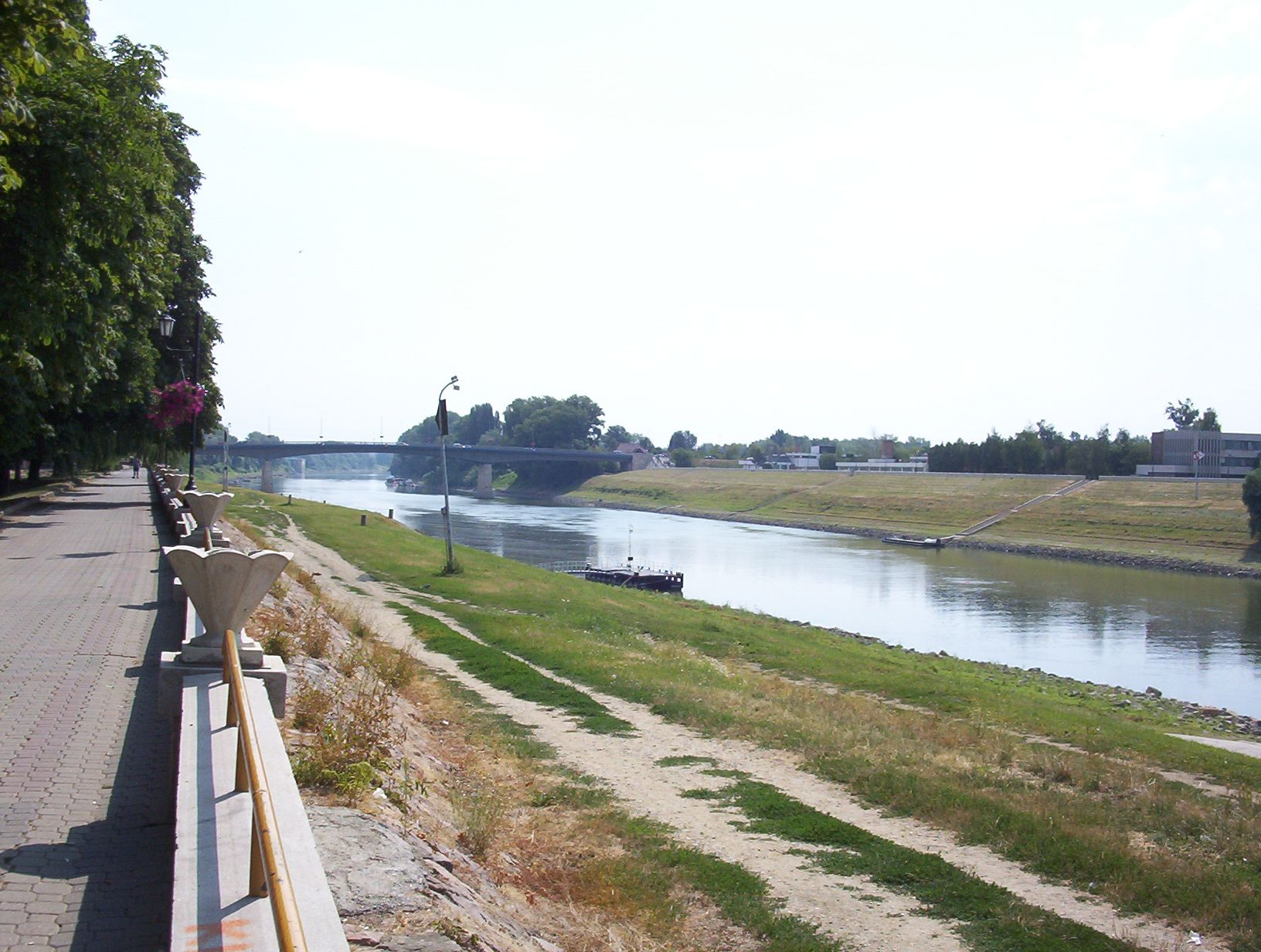 The Tisza (Theiss) River at the Hungarian city of Szolnok, at low tide.